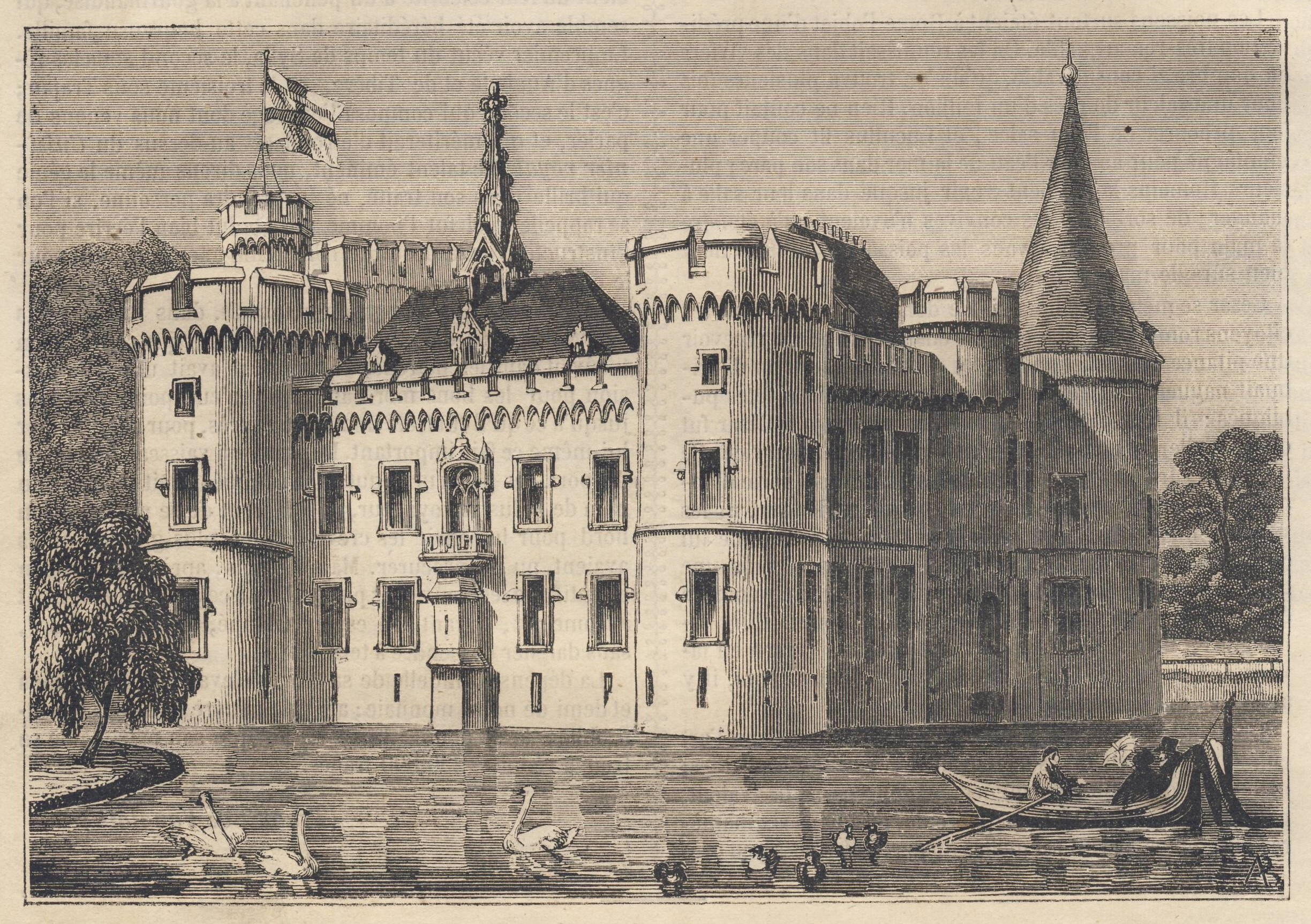 Bouchout Castle at 1843 after the renovations of 1832 by A.de Beauffort and M.Suys. View from the north-east. This etching resembles a work from Jean Michel Cels (†1881) produced at 1840, so the authors "ABL" may also have produced a copy of Cels' etching.